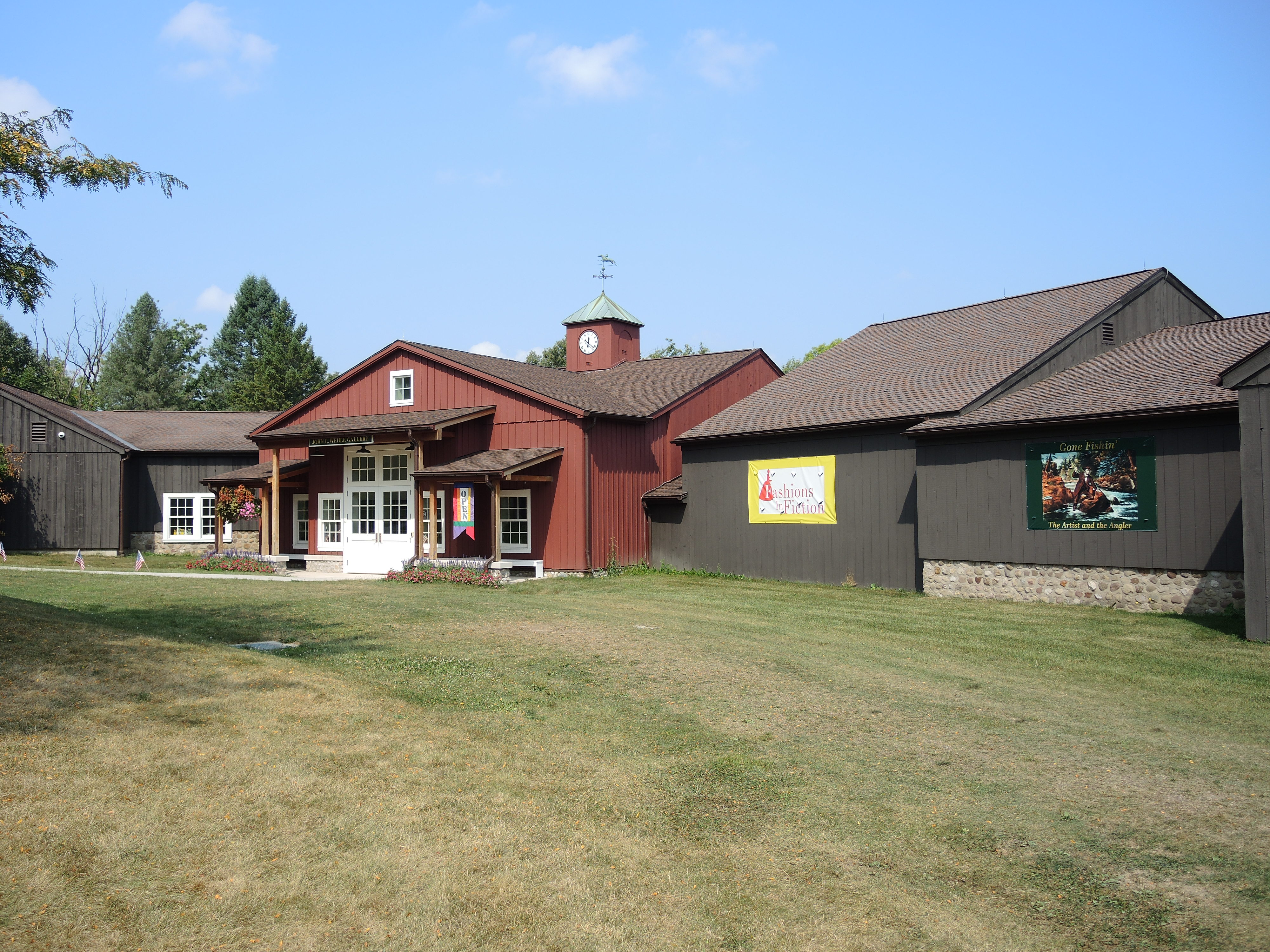 Exterior of the John L. Wehle Gallery on the grounds of Genesee Country Village and Museum